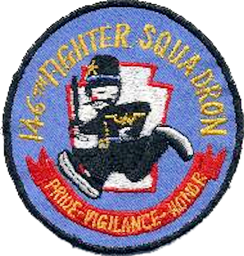 146th Fighter-Interceptor Squadron - Emblem